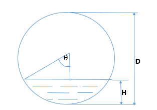 The figure shown depicts a simplified version of a closed circular conduit in which a liquid is flowing.